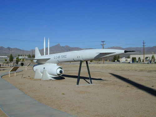 The Hound Dog supersonic jet missile. According to the White Sands Missile Range Museum, this jet propelled, supersonic missile was launched from a B-52 bomber and then flew to its target carrying a nuclear warhead.